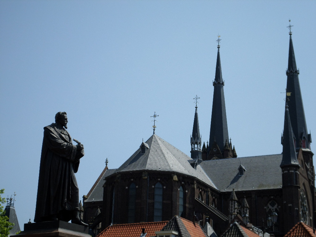 Statue of Hugo Grotius at the Grote Markt in Delft with the spires of Maria van Jessekerk